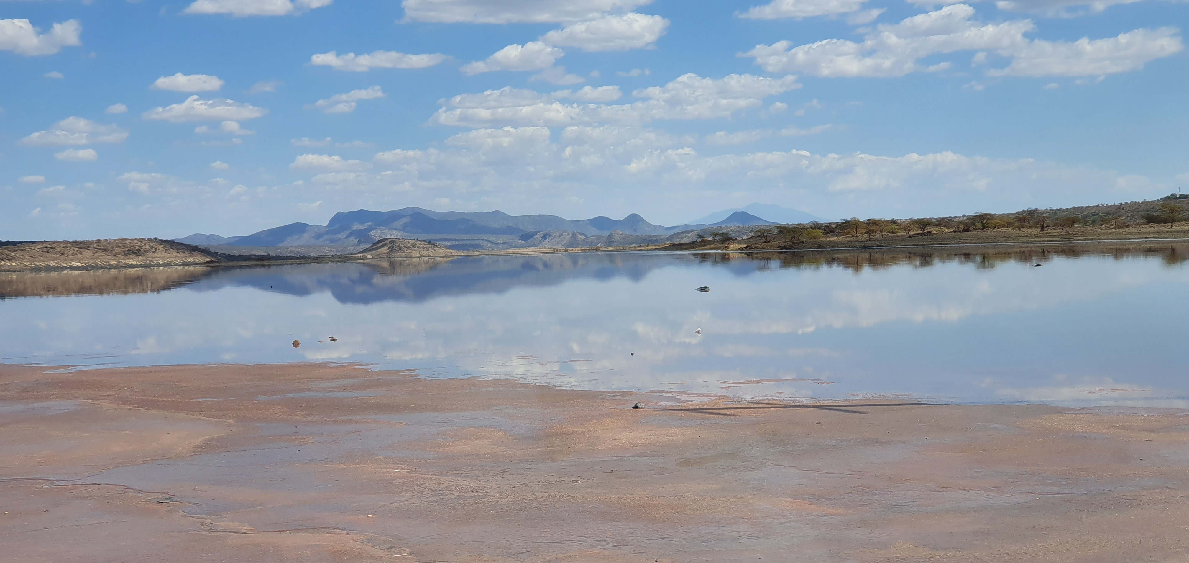 Driving to Lake Magadi, this view presents itself to the left of the lake